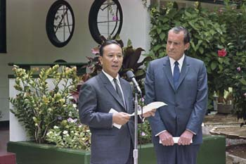 Joint statement by the president of the Republic of Vietnam, Nguyen Van Thieu, and the U.S. President Richard M. Nixon at Midway Island.